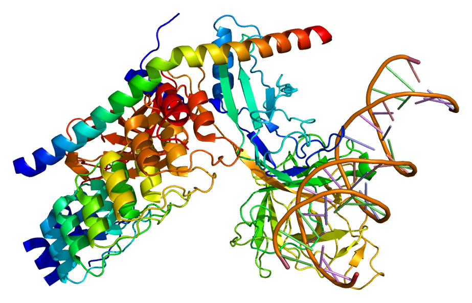 Structure of the RBPJ protein. Based on PyMOL rendering of PDB 2f8x.